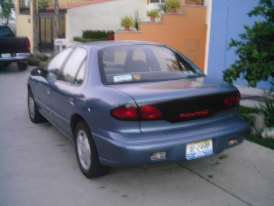 Rear view of my '97 Pontiac Sunfire. I give you all this picture into public domain. License plates are from Jalisco, Mexico.